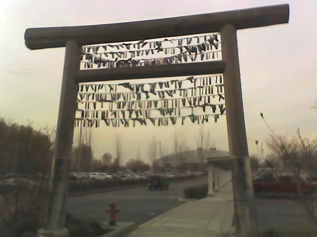 Brendan K Callahan -- Callcentermonkey 04:16, 19 November 2006 (UTC)